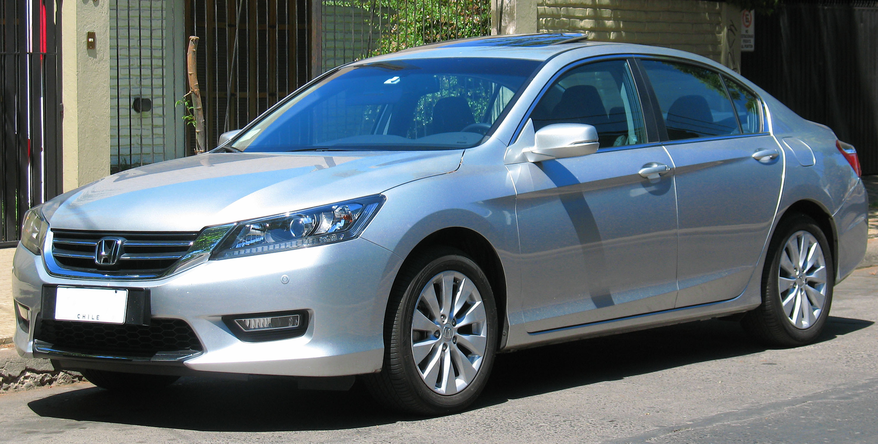 Honda Accord 2.4 EXL 2014